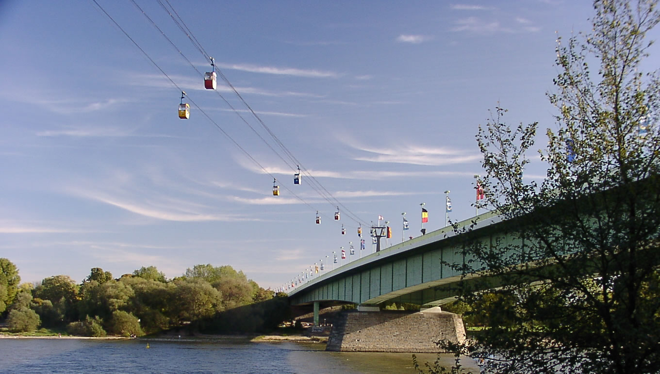 The Zoobrücke (Zoo bridge) with the Rheinseilbahn above it over the Rhine in Cologne (Germany). The image was taken from the left side of the Rhine (seen downstream) looking eastwards.